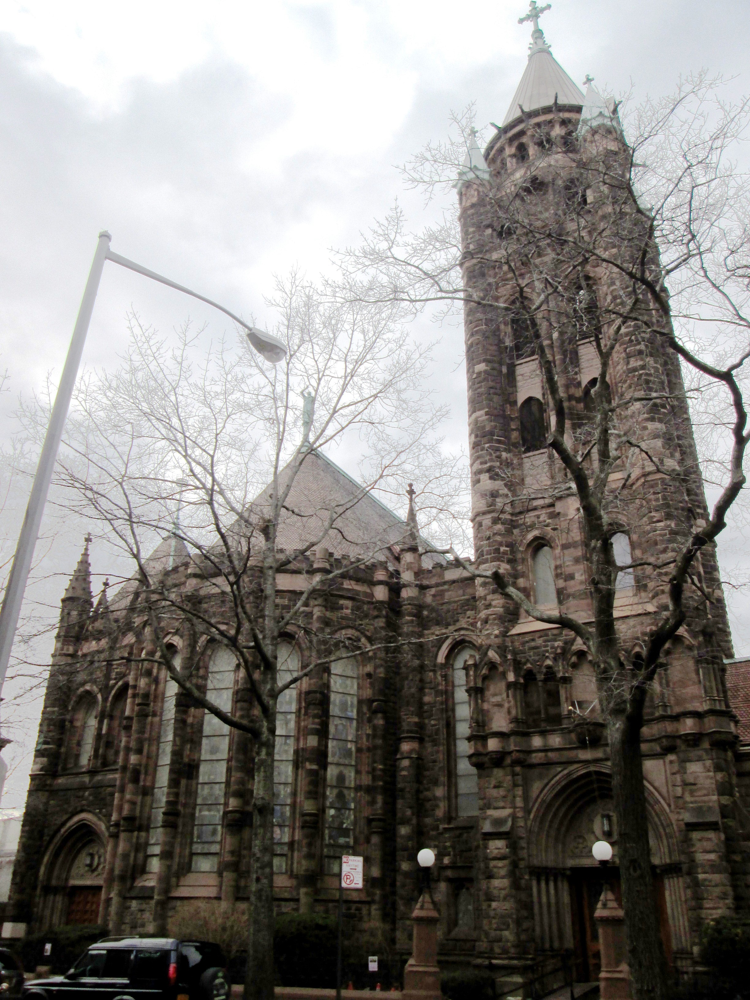 St. Augustine's Roman Catholic Church on Sixth Avenue between Park and Sterling Places in the Park Slope neighborhood of Brooklyn, New York City was built in 1897 and was designed by the Parfitt Bros. in the Victorian Gothic style. (Source: AIA Guide to NYC (5th ed.))